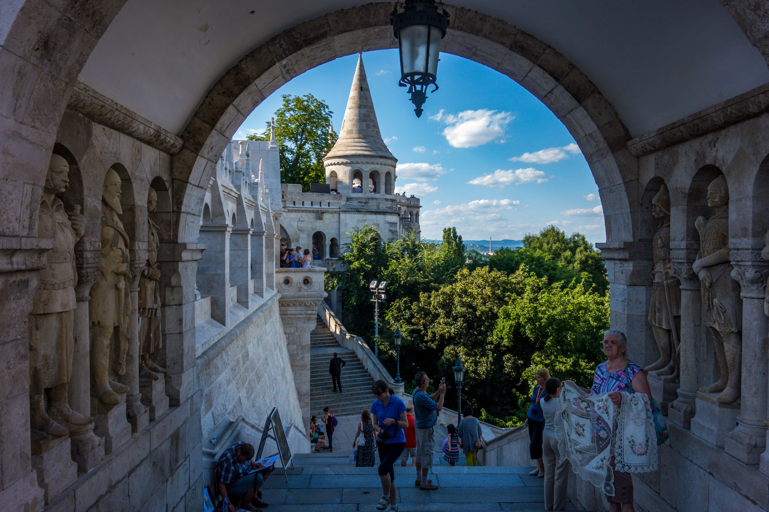 Hungary - Budapest